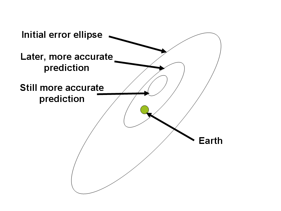 This figure shows why asteroid impact probability goes up, then down.